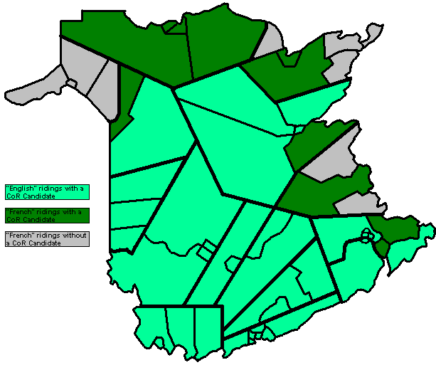 Ridings with CoR candidates, in the New Brunswick General Election of 1991. French and English ridings are coloured differently.